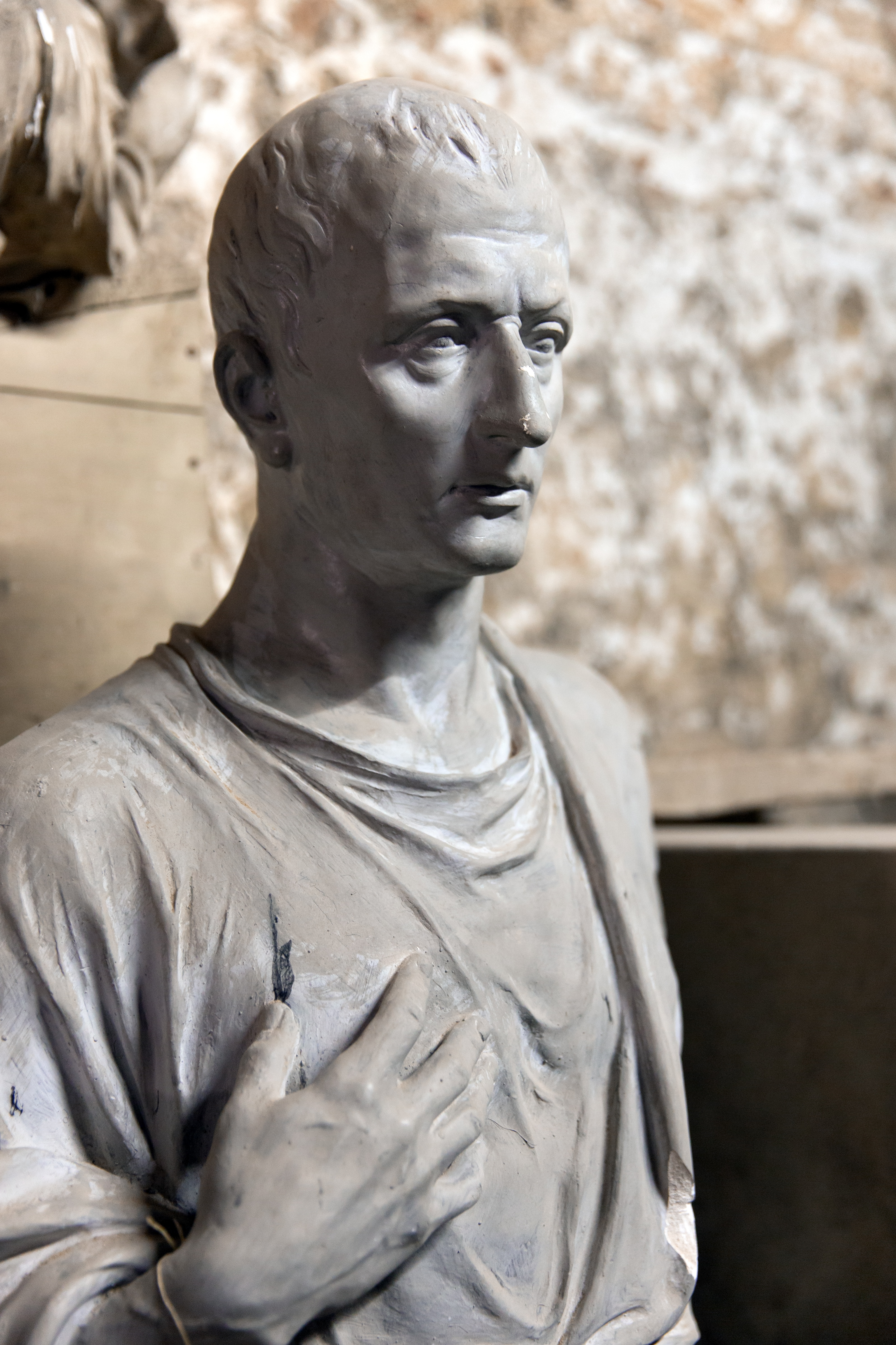 Models made of gypsum of statues, reliefs etc. from the time of Historicism and Art Nouveau (late 19th and early 20th century) for buildings at Ringstraße in Vienna, Austria, stored in the former wine cellar of Hofburg Palace (Leopold Wing) - statue of Cicero by Karl Sterrer for the Austrian Parliament Building. Dieses Bild wurde anlässlich des österreichischen Tags des Denkmals 2015 in Wien eingereicht.